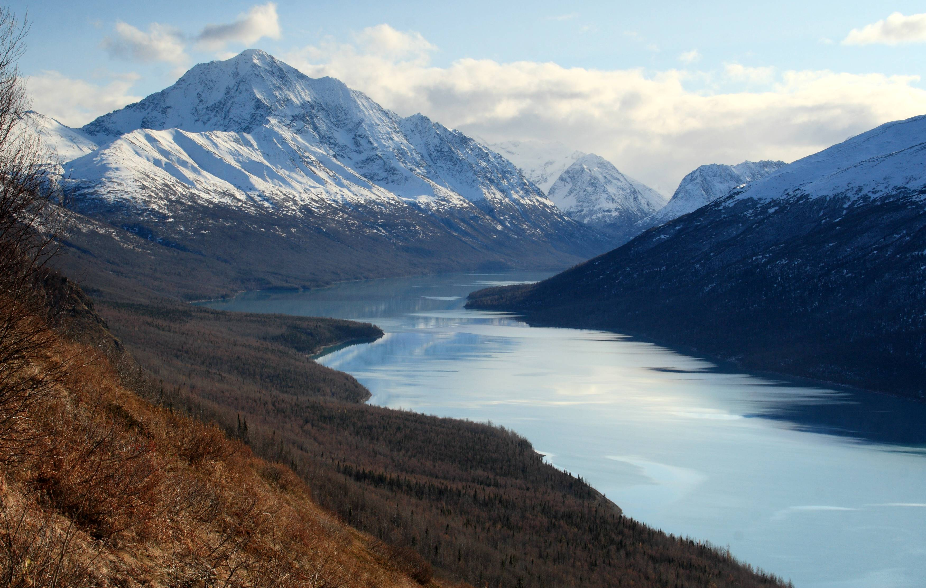 These photos are from a hike I took with several people in October 2008. Twin Peaks is a fairly short but steep trail starting at Eklutna Lake. We made it to the second bench before turning back as the snow was too deep - and it was freezing up there!